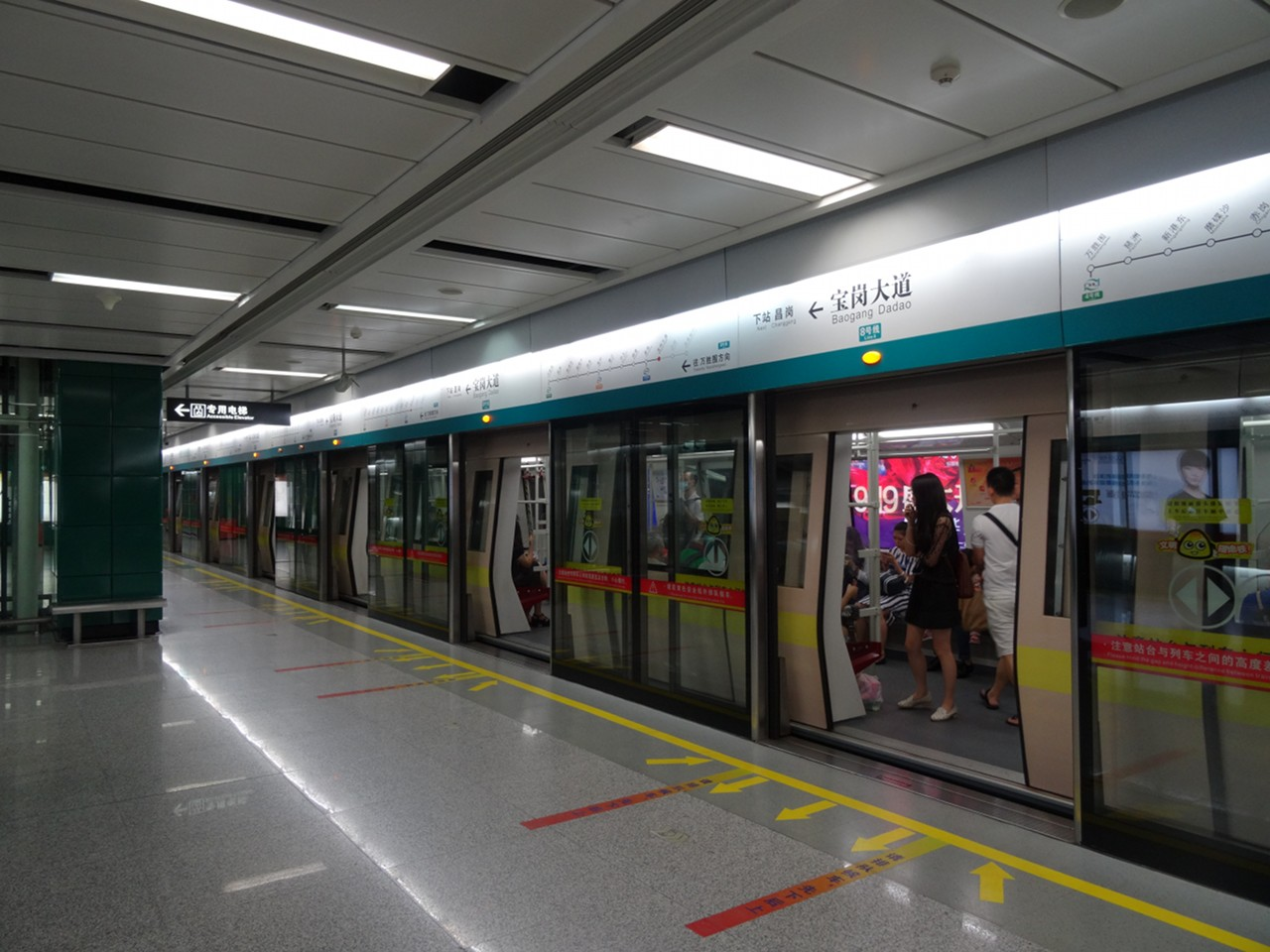 寶崗大道站嘅月台（去萬勝圍個邊）